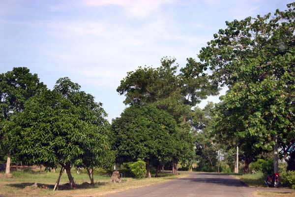 Orig. Flickr desc: Photos taken during my recent visit to Northern Luzon. The trip is chronicled here: travelogue.digitalrebel.ws/2007/08/northernluzon2007.html .